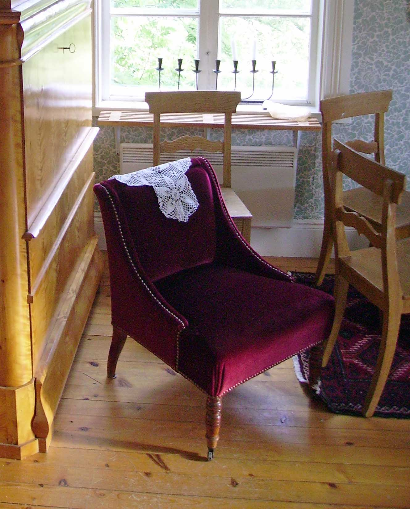 "Emma", a name for this particular kind of chair popular in Sweden during the 19th century.